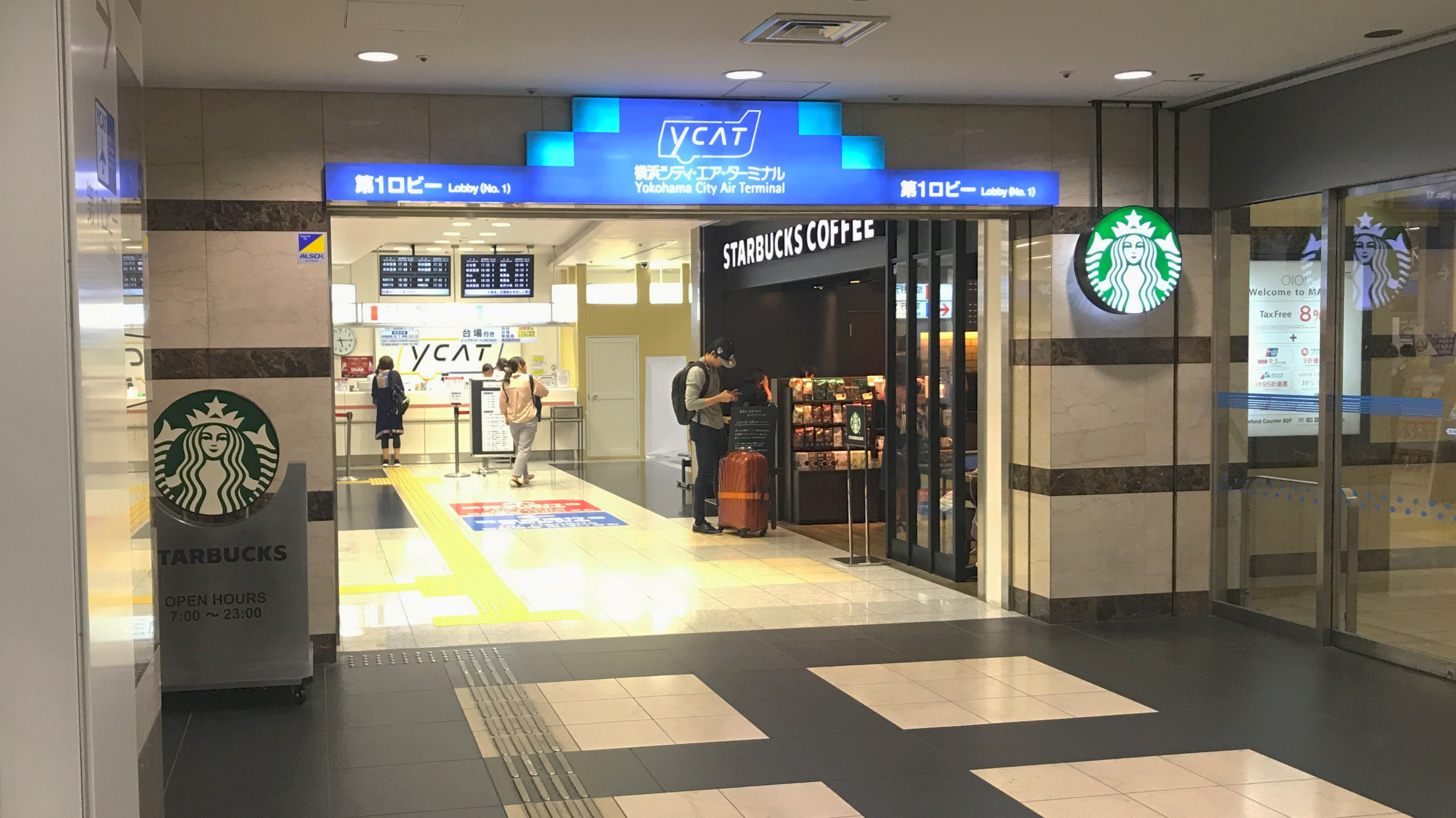 The entrance to the first lobby of Yokohama City Air Terminal (YCAT). It is located on the 1st floor of the Sky Building at the east exit of Yokohama Station.